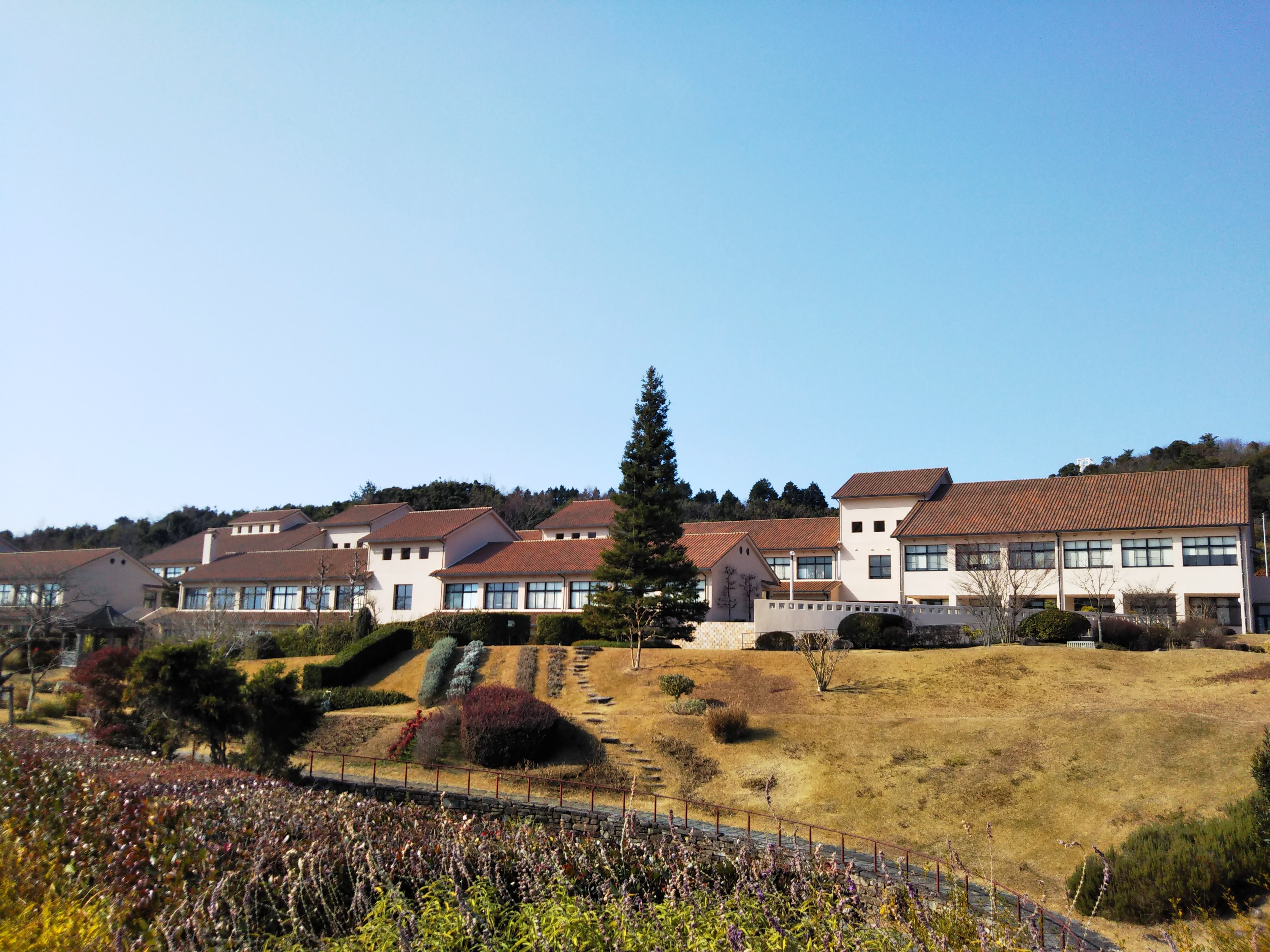 Main buildings at Hyogo Prefectural Awaji Landscape Planning & Horticulture Academy (ALPHA) in Awaji, Hyogo, Japan.